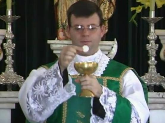 Father of the Personal Apostolic Administration of St. John Mary Vianney, in 2011, in a Tridentine Mass, saying to the people: "Ecce Agnus Dei".